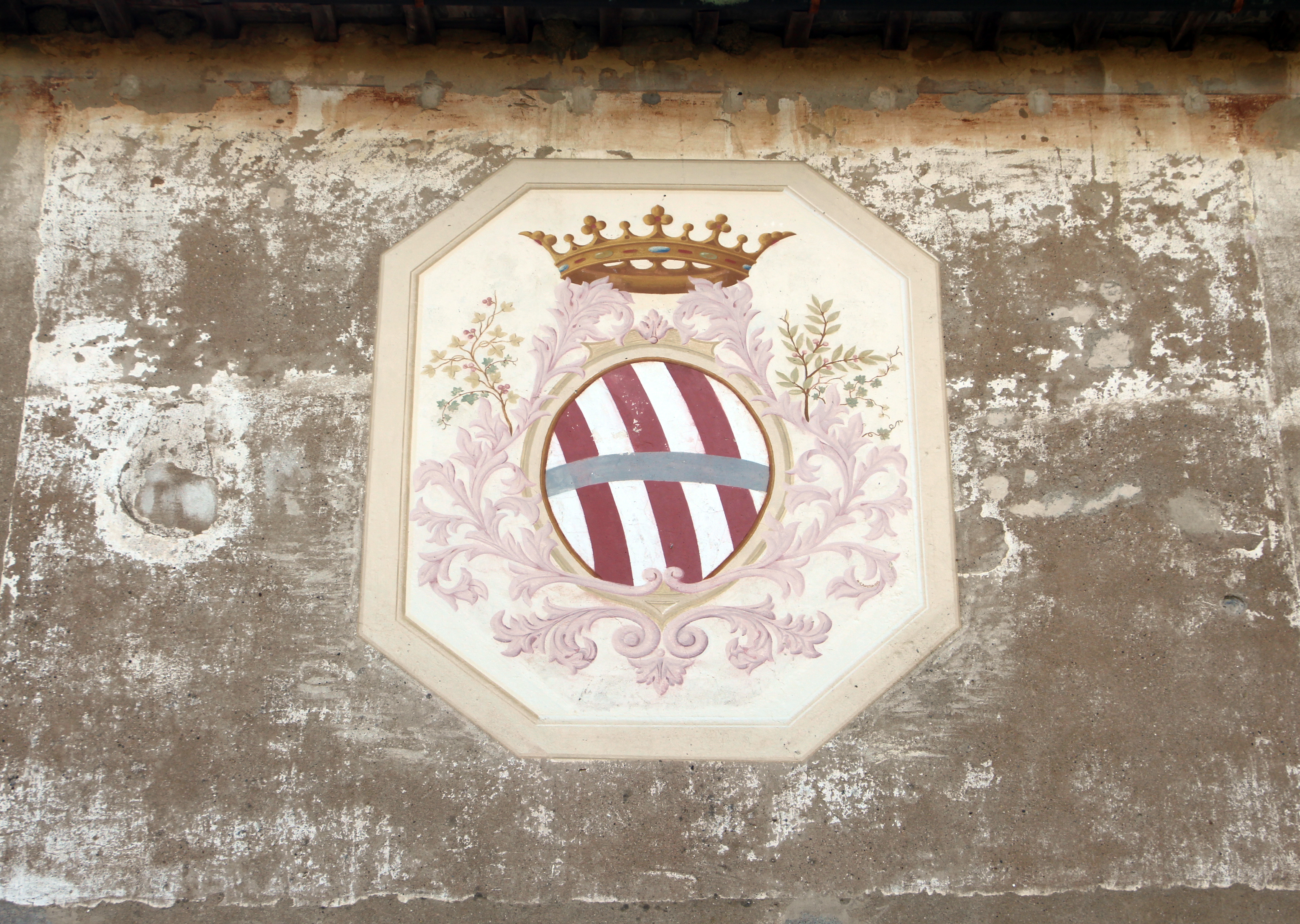 Villa di Spedaletto